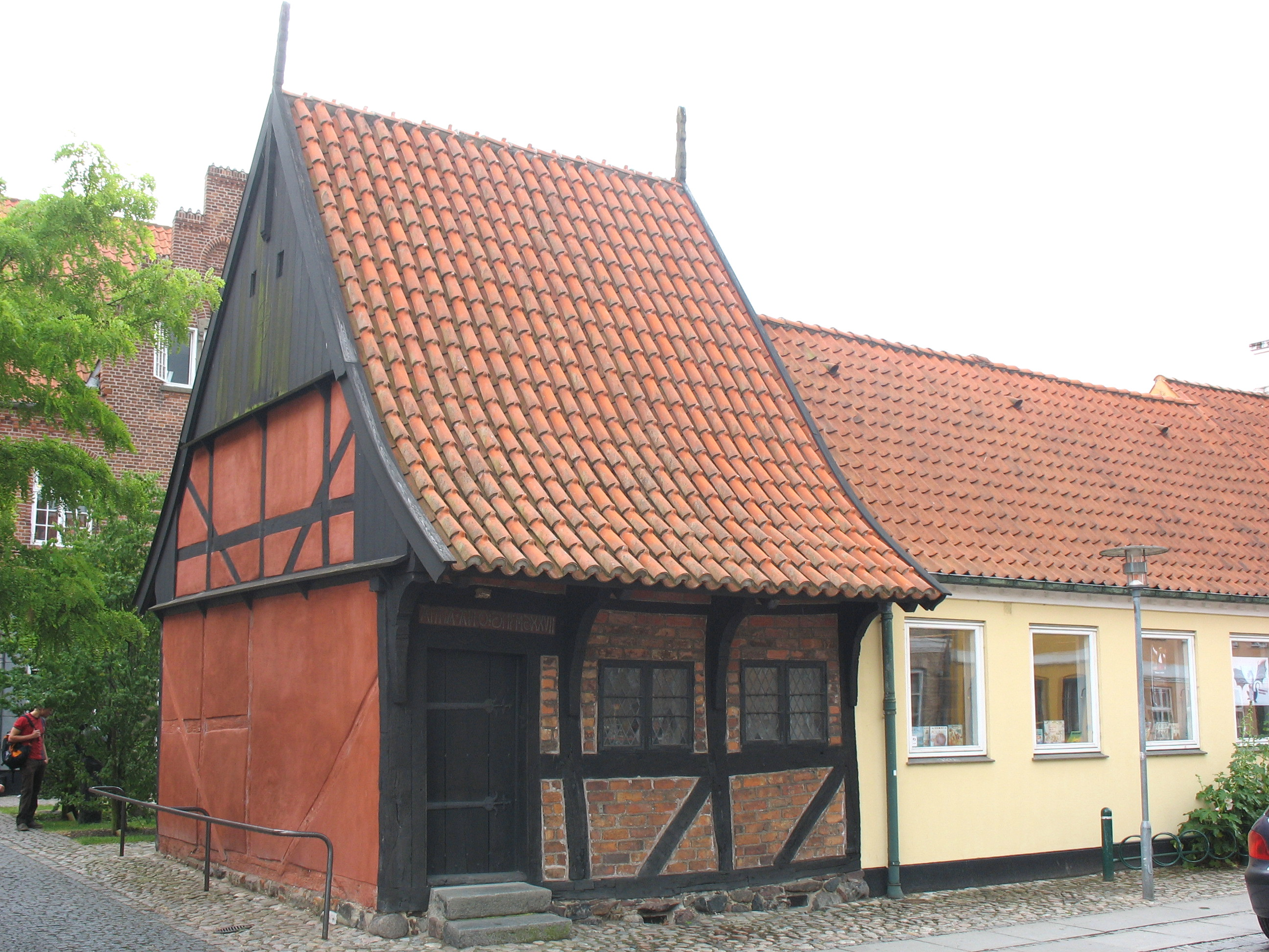 Oldest dated Danish half-timbered house in the town "Køge". The town is located in Middle Zealand in east Denmark.